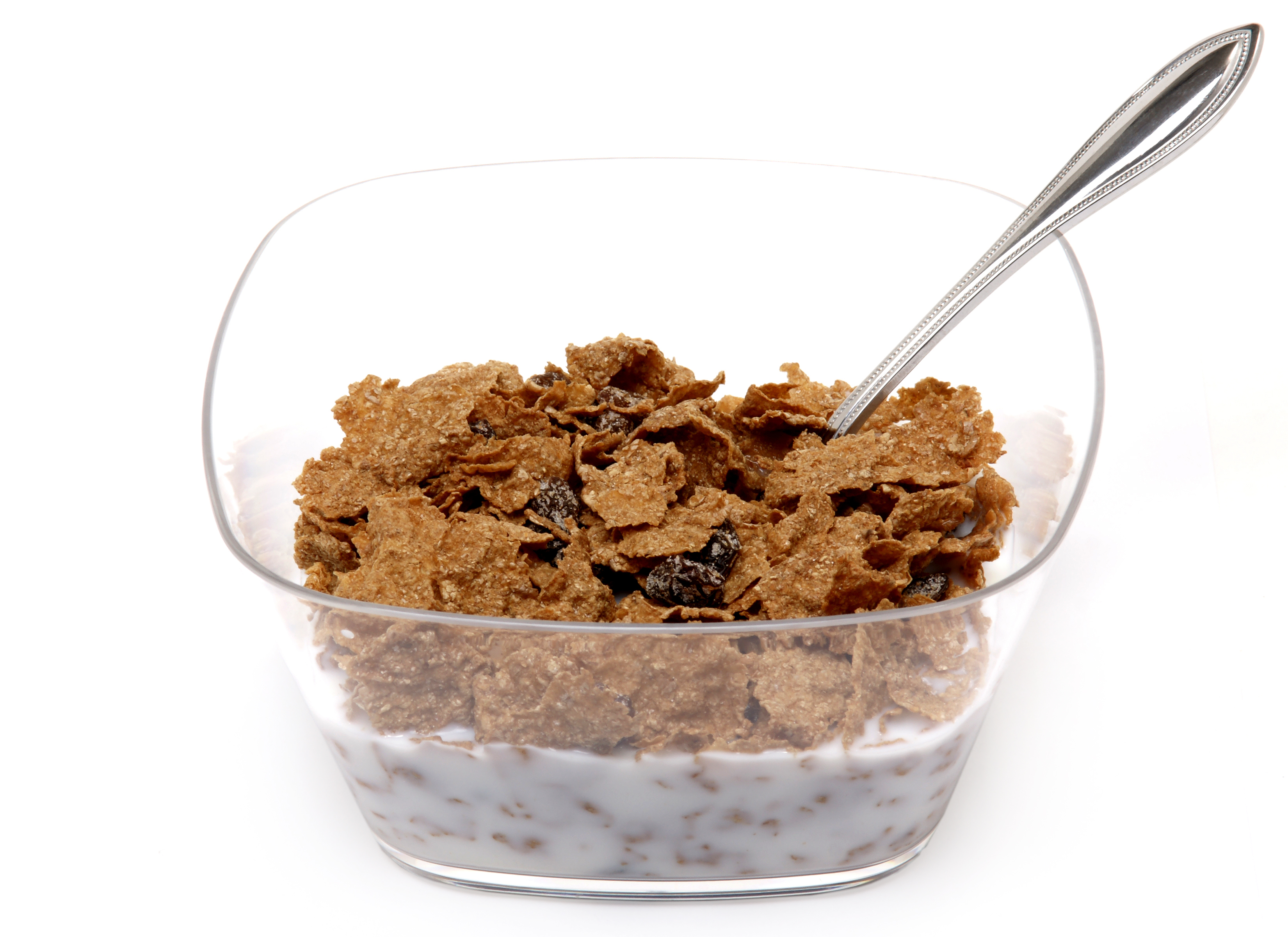 A bowl of Raisin Bran cereal shown in a clear plastic bowl and low-fat milk.